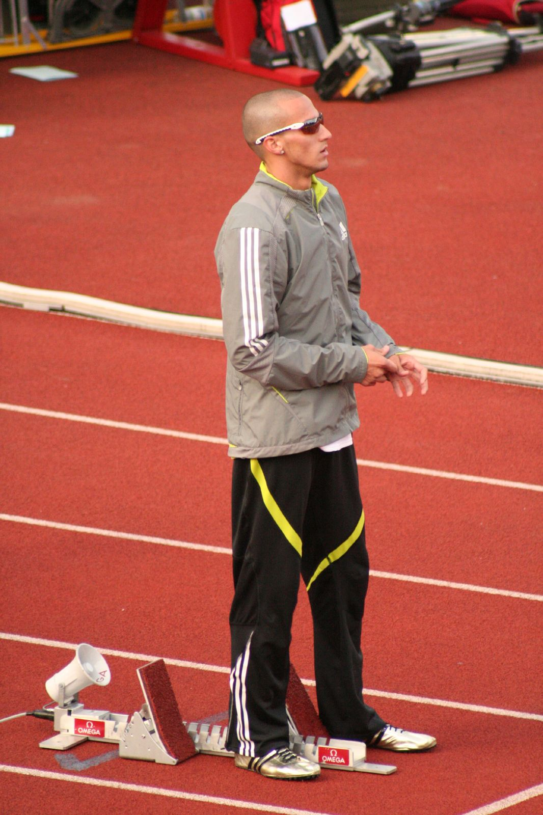 Jeremy Wariner in 2007 Crystal Palace meeting